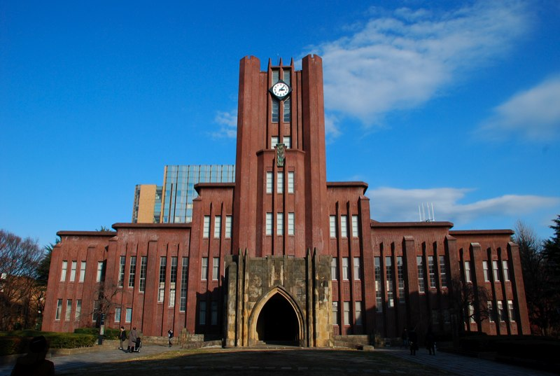 Yasuda Auditorium at the Tokyo University